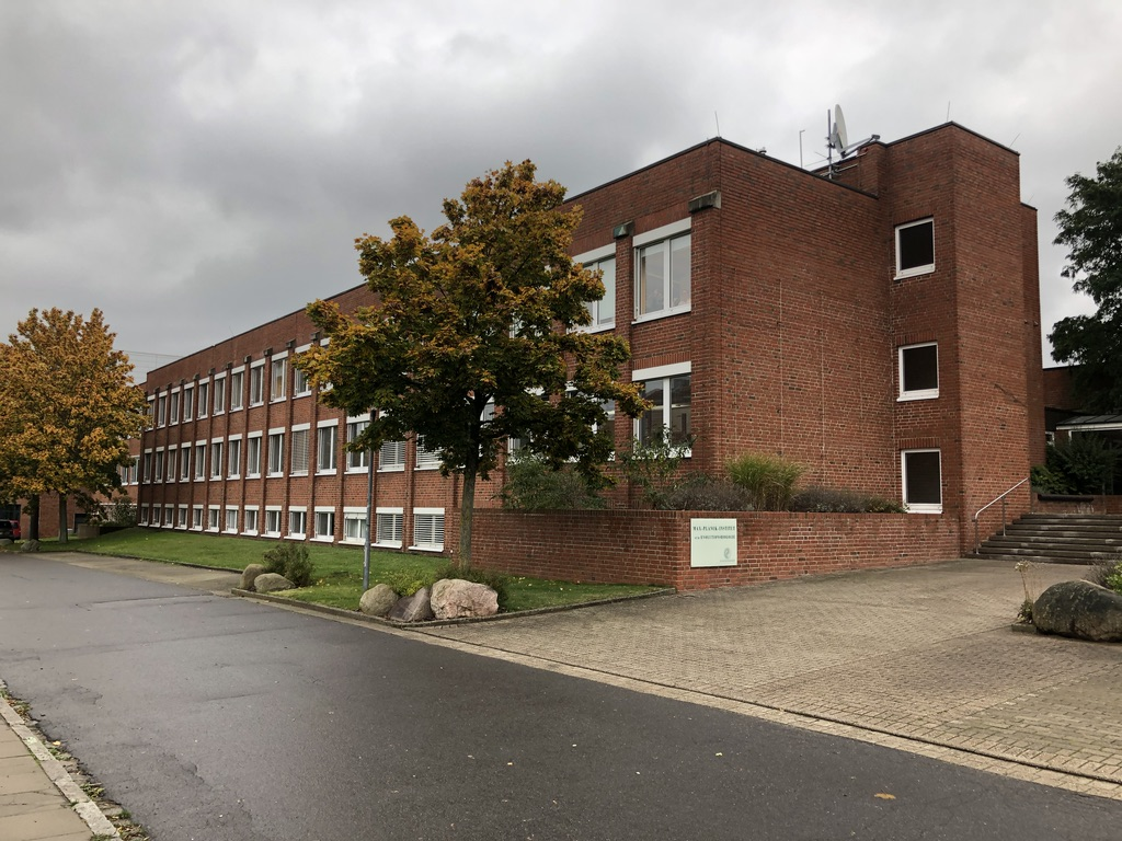 Building of the Max Planck Institute for Evolutionary Biology in Plön, Germany